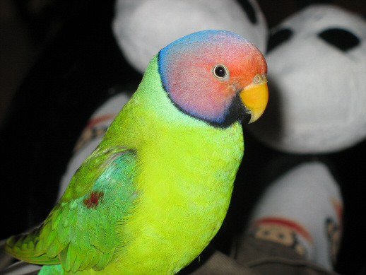 Plum-headed Parakeet (Psittacula cyanocephala). Upper body of a male pet parrot.